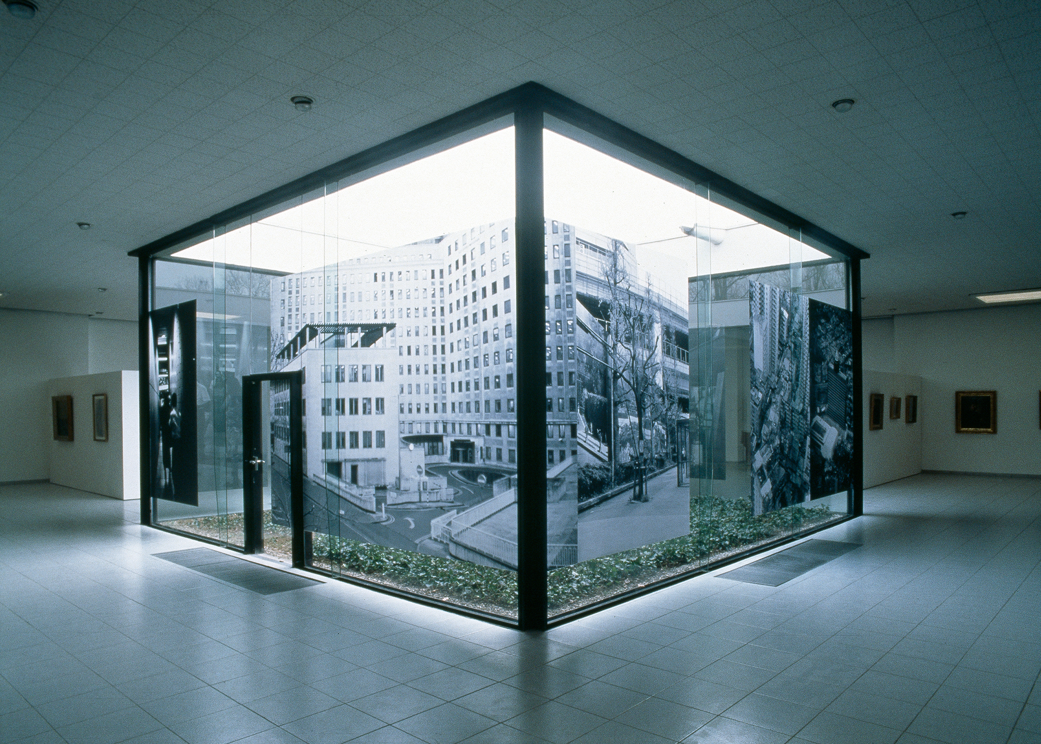 Aglaia Konrad - installation view: Green Easter, Museum Dhondt-Dhaenens, Deurle (1997)